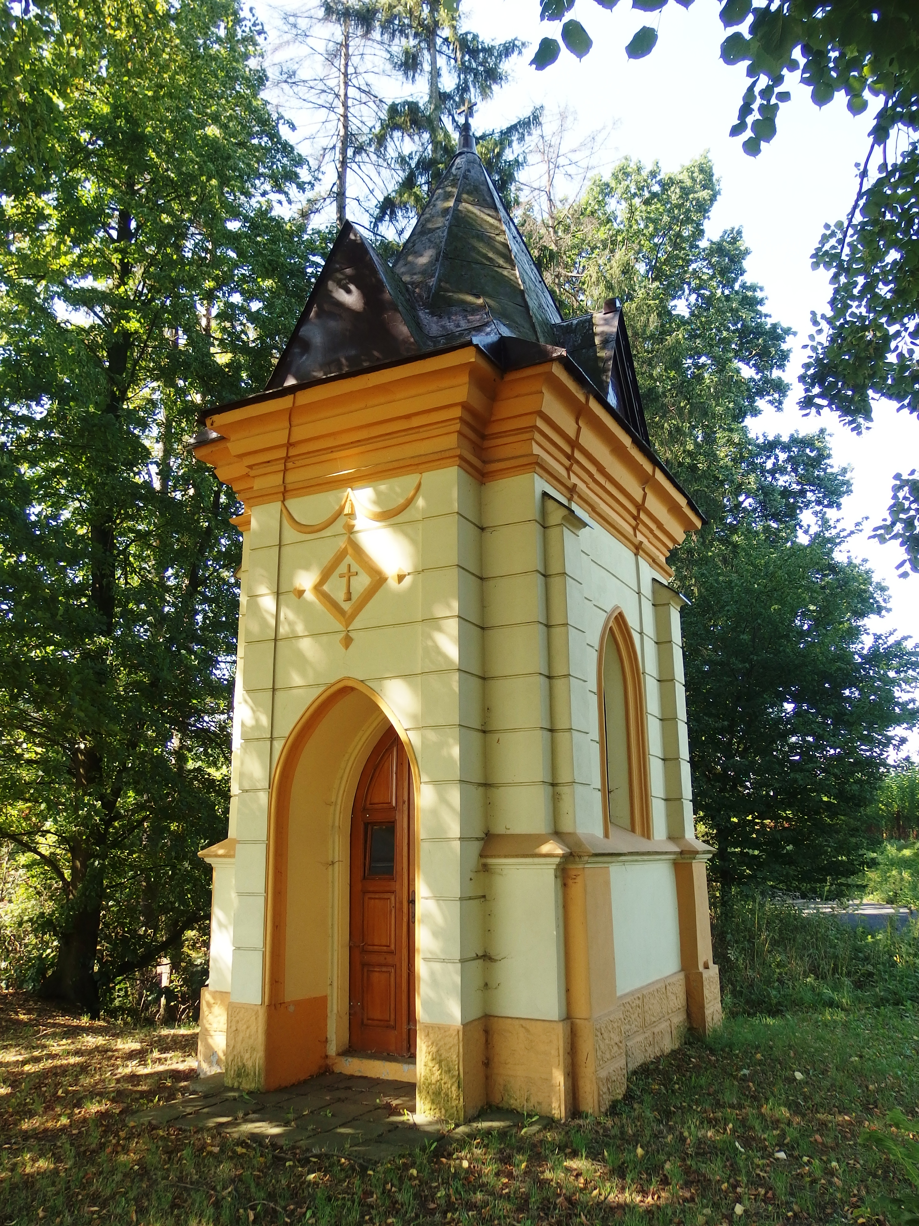 Jeseník nad Odrou, Nový Jičín District, Czech Republic, part Blahutovice.